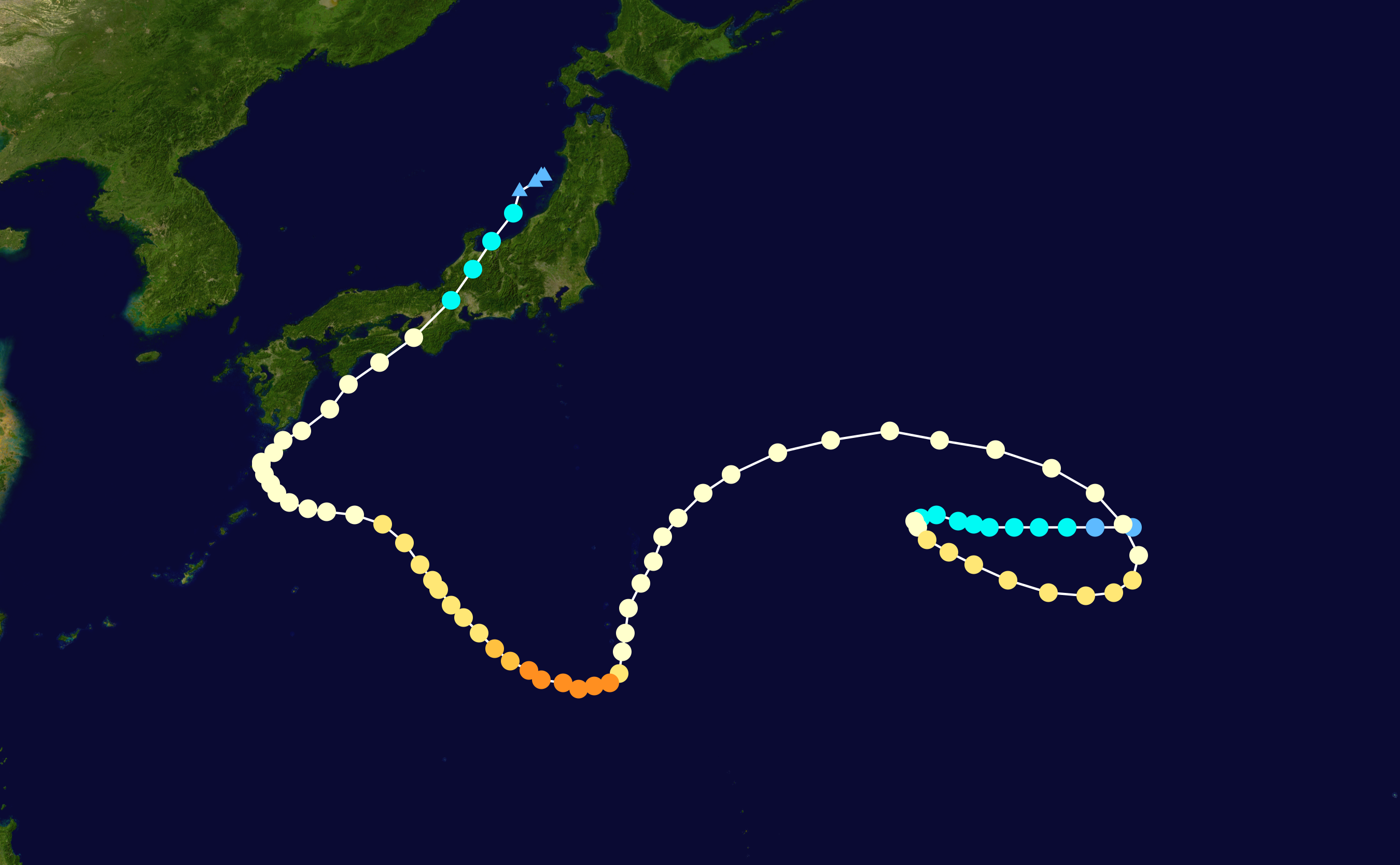 Track map of Typhoon Noru of the 2017 Pacific typhoon season. The points show the location of the storm at 6-hour intervals. The colour represents the storm's maximum sustained wind speeds as classified in the Saffir–Simpson scale (see below), and the shape of the data points represent the nature of the storm, according to the legend below. Saffir–Simpson scale Tropical depression≤38 mph≤62 km/h Category 3111–129 mph178–208 km/h Tropical storm39–73 mph63–118 km/h Category 4130–156 mph209–251 km/h Category 174–95 mph119–153 km/h Category 5≥157 mph≥252 km/h Category 296–110 mph154–177 km/h Unknown Storm type Tropical cyclone Subtropical cyclone Extratropical cyclone / Remnant low / Tropical disturbance / Monsoon depression